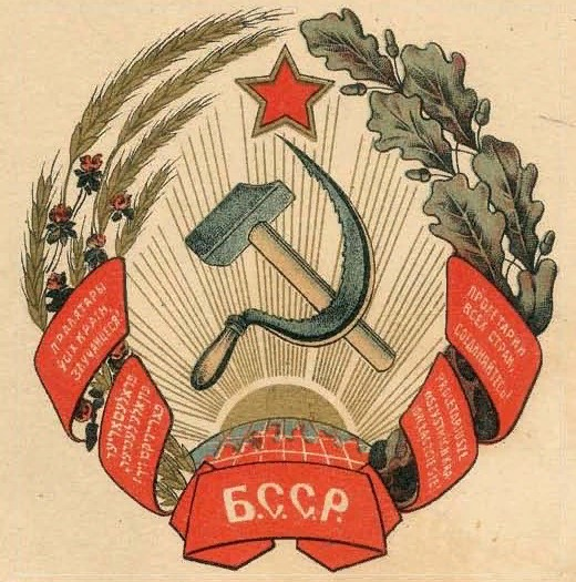 Coat of arms of the Belarussian SSR from 1927 to 1937.